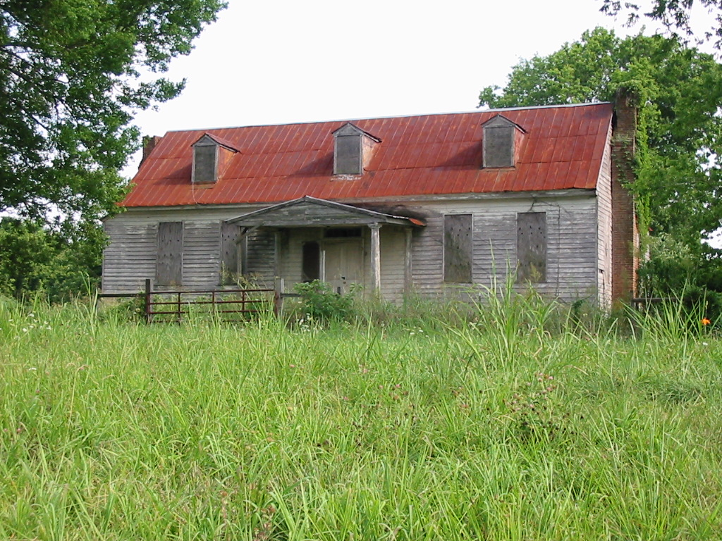 Photo was taken in the Summer of 2005 by William White. It is a picture of the antebellum house, Bride's Hill, which is located in Lawrence County, AL. This photo should be in the article "Bride's Hill", about the antebellum house in Alabama.